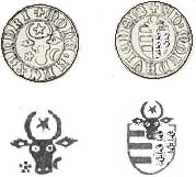 Coin of Moldova